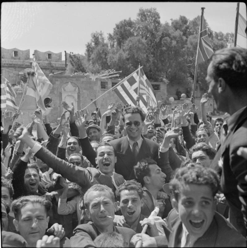 The Liberation of Rhodes, 1945 Crowds of civilians carrying Greek, British and American flags cheer wildly as British and Indian troops arrive on Rhodes following the signing of the unconditional surrender of German forces.